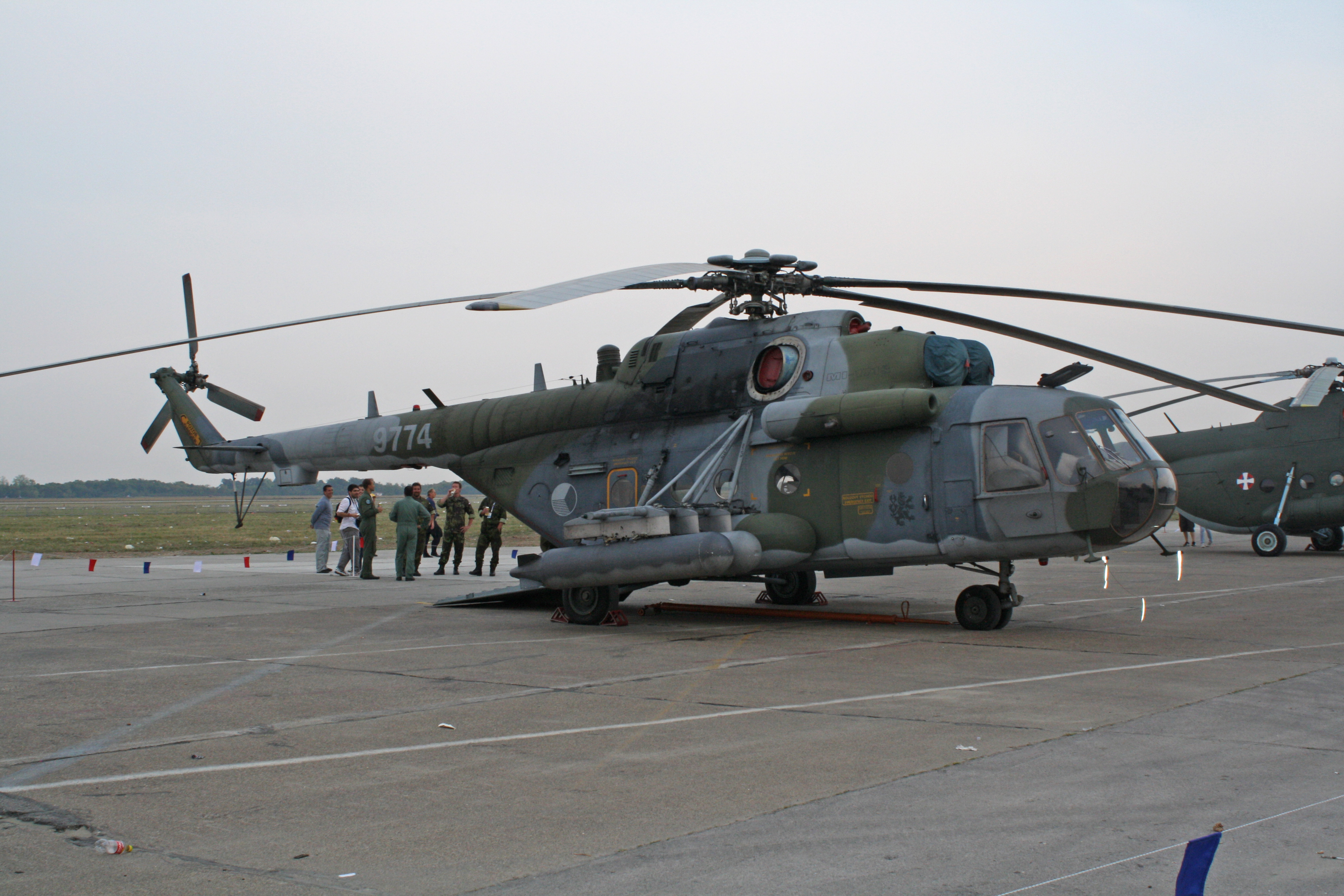 Mi-171Sh of Czech Air Force at Batajnica airbase during the Batajnica 2009 airshow. Чешки хеликоптер Ми-171Ш на аеромитингу Батајница 2009.